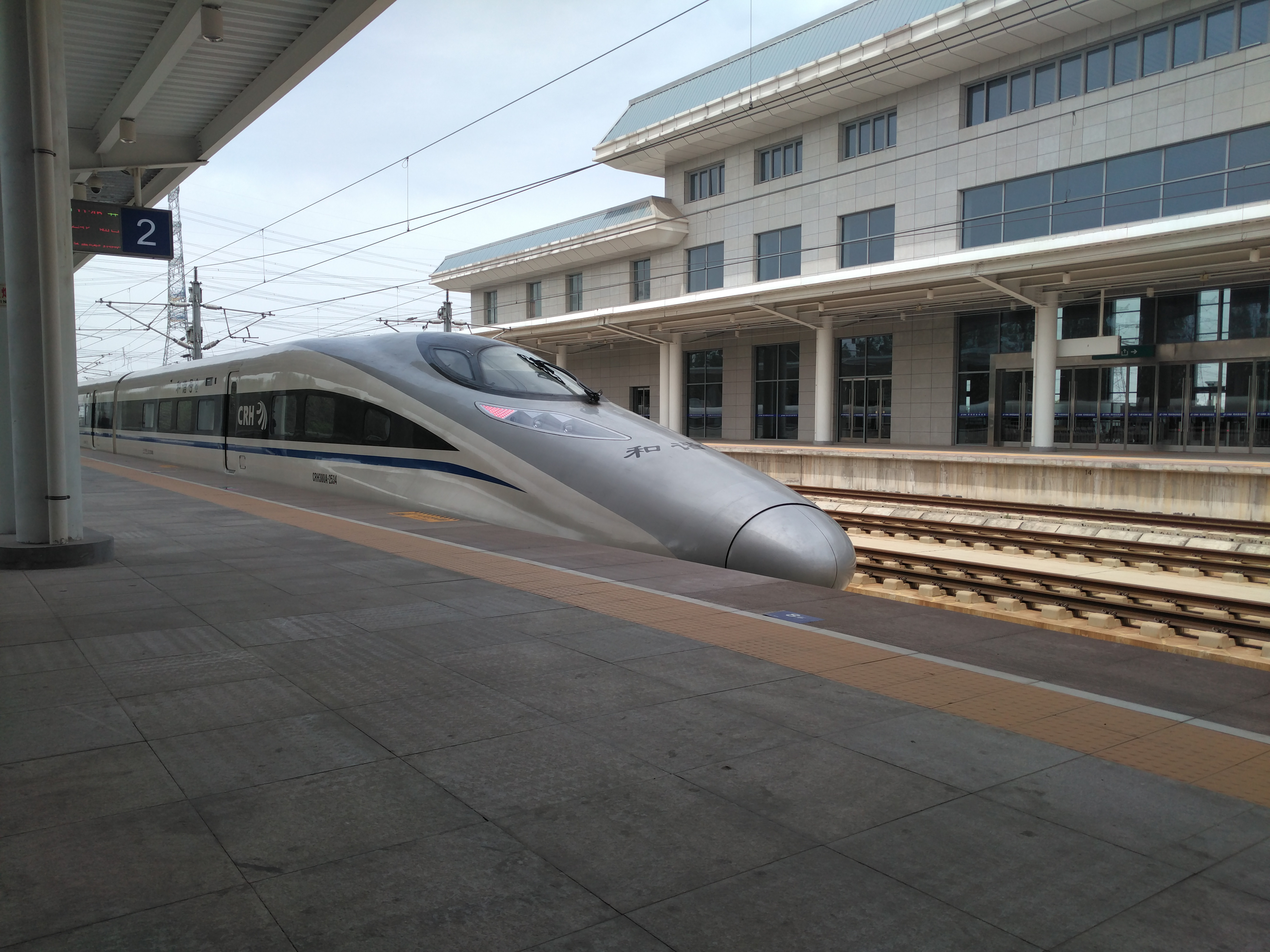 Train G653 from Beijing West to Xi'an North, operated by a CRH380A EMU, whose serial No. is seemed to be modified.